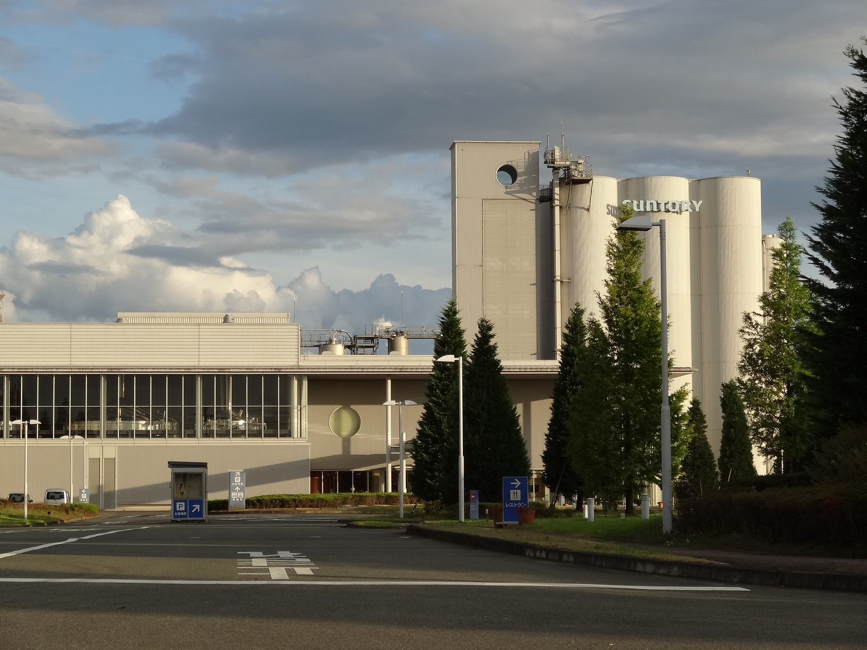 Suntory Kyushu Kumamoto Plant (Kashima Town, Kumamoto Prefecture, Japan)